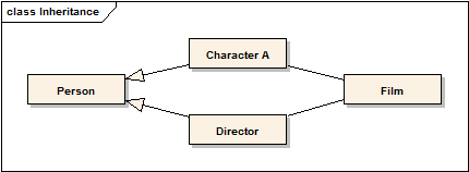 An example of the Inheritance Role Model applied to the cinema domain.